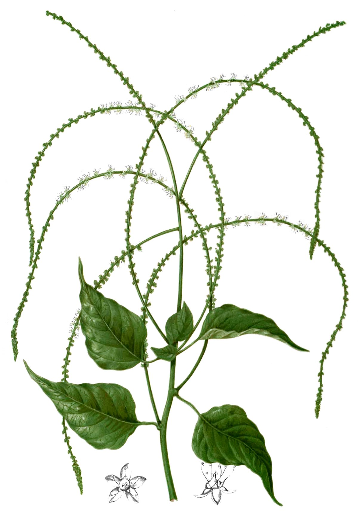 Plate from book